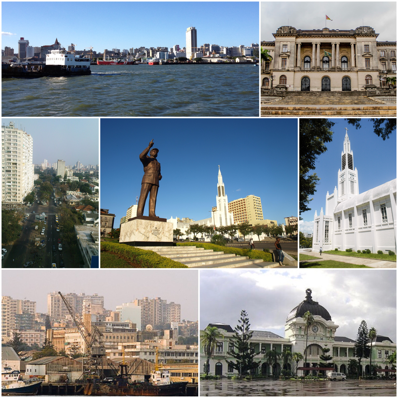 Montage of Maputo, Mozambique